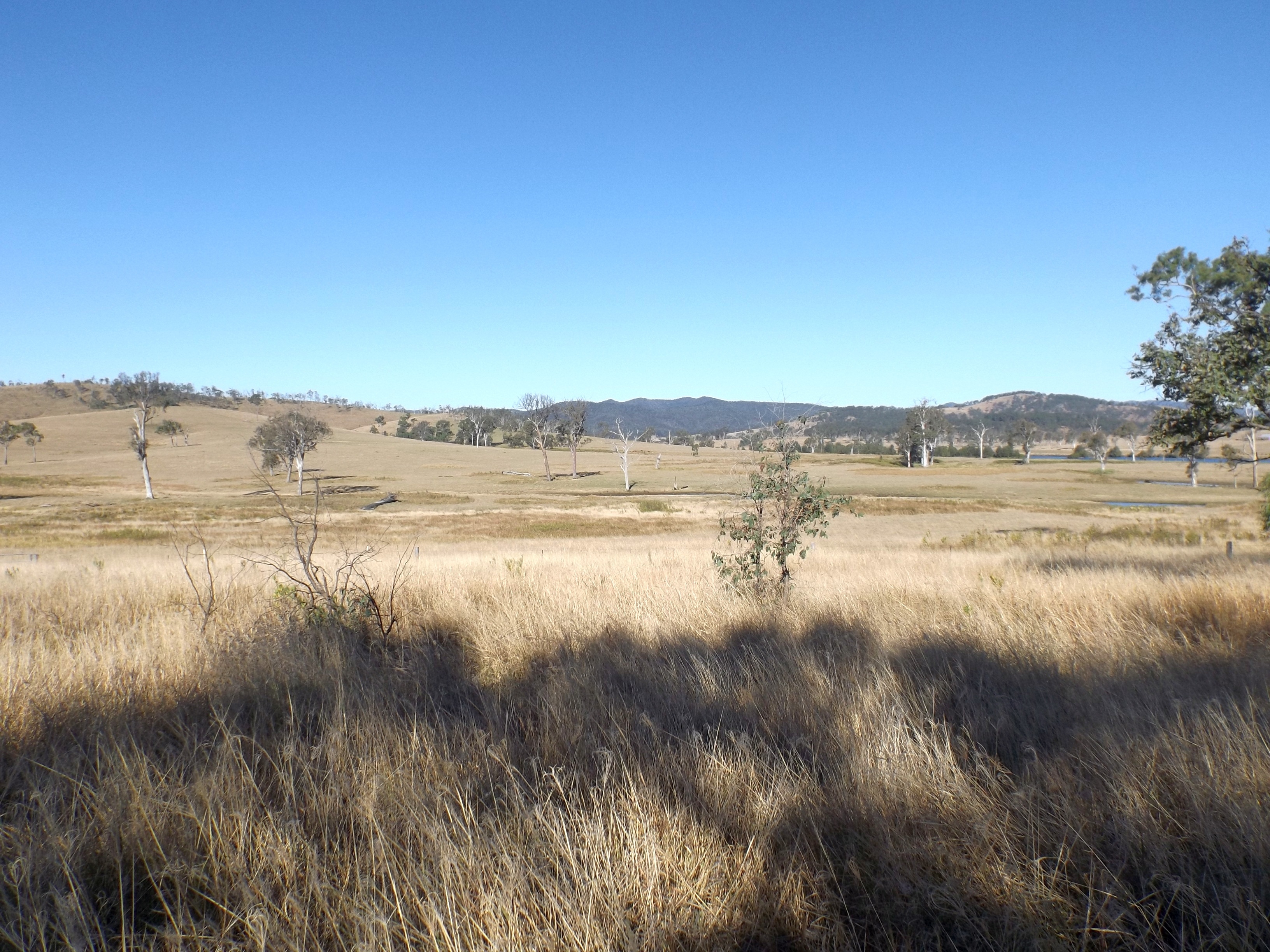 Photo of paddocks at Crossdale, Somerset Region, Queensland, Australia.